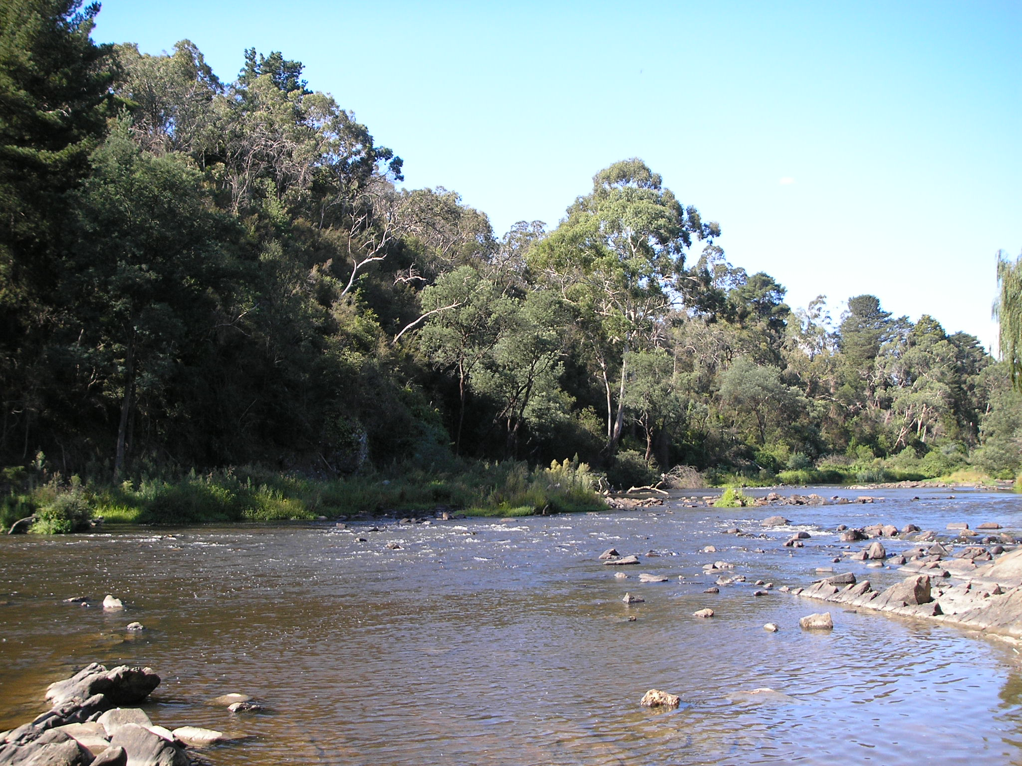 A typical riverside scene in Warrandyte. Image taken by me in 2006.